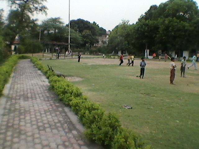 A park in the government residential complex of Timarpur